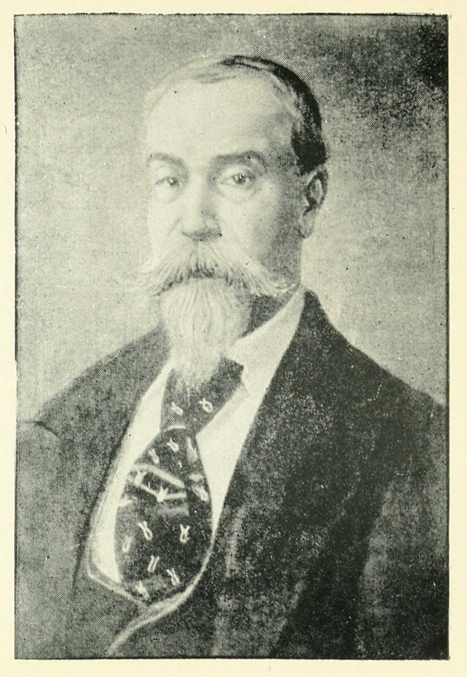 Pasquale Vinaccia, luthier, inventor or perfecter of the Neapolitan mandolin. He was grandfather of Carlo Munier, by Pasquale's daughter Rosa Vinaccia.